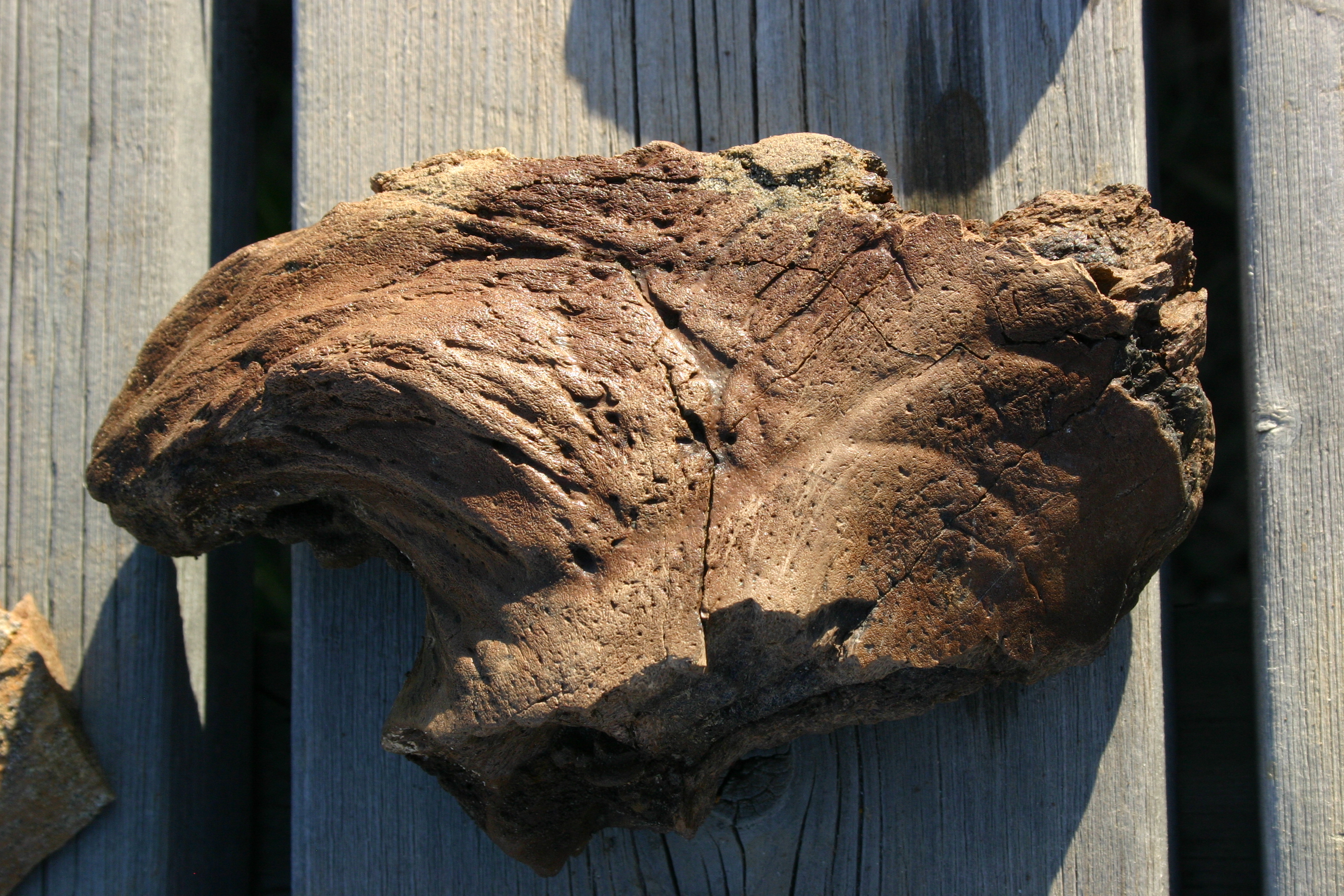 Hooked hornlet from the back of the frill (parietal bone) of Centrosaurus apertus (Dinosauria: Ornithischia: Ceratopsia: Ceratopsidae: Centrosaurinae) from the Late Cretaceous (Campanian) Dinosaur Park Formation, Dinosaur Provincial Park, Alberta, Canada. Specimen discovered by Nick Longrich; Photo by Nick Longrich.